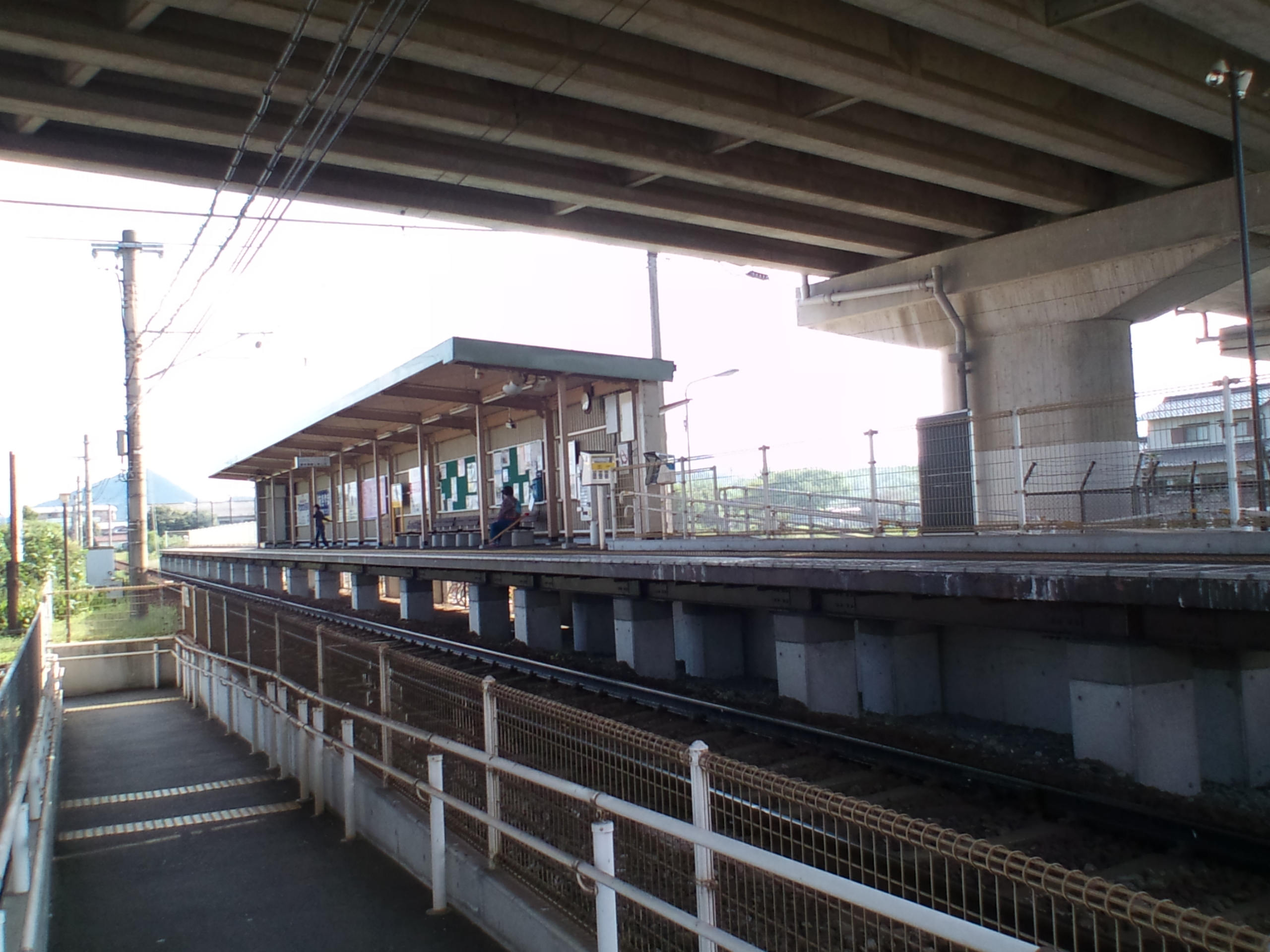 Kukō-dōri Station. at 3rd November 2010.